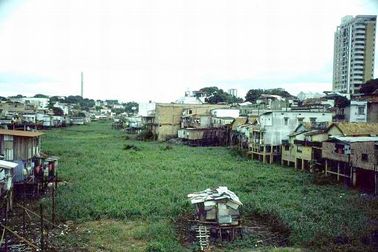 Favela in Manaus created by he:משתמש:בן הטבע